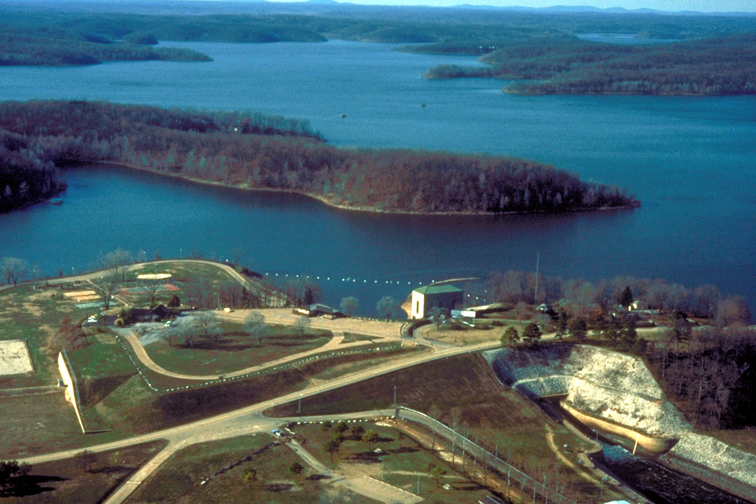 Wappapello Lake, near Wappapello, Missouri, USA. The lake is impounded behind Wappapello Dam, of which only the spillway is shown in this photograph.